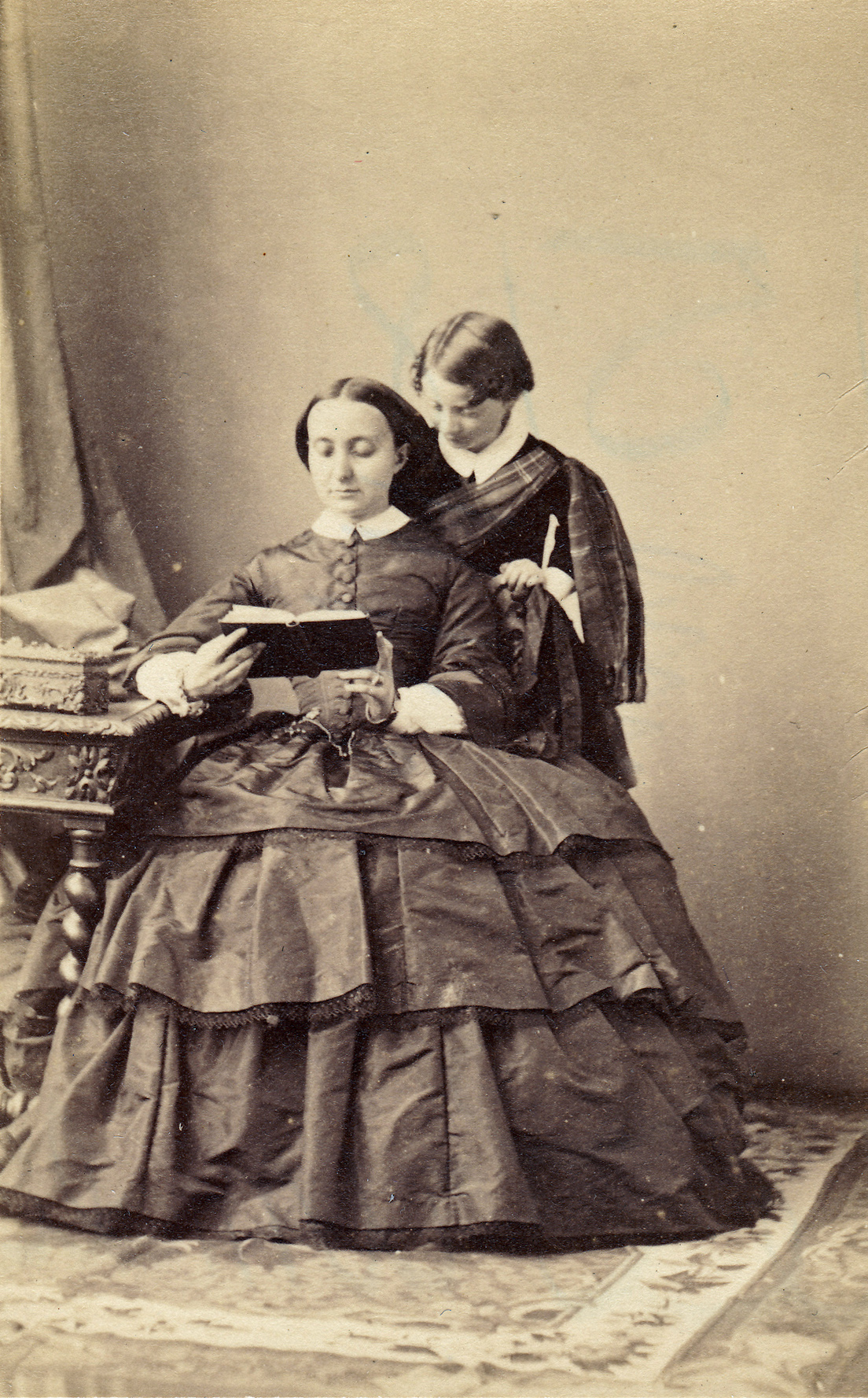 Charlotte Bonaparte, Comtesse Pietro Primoli de Foglio (1832-1901), taken by Disderi with her son in 1859.